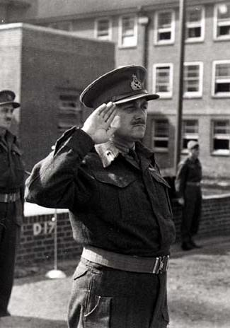 Major-General Charles Foulkes standing at attention during an inspection of Canadian troops in England, May 12th, 1944.